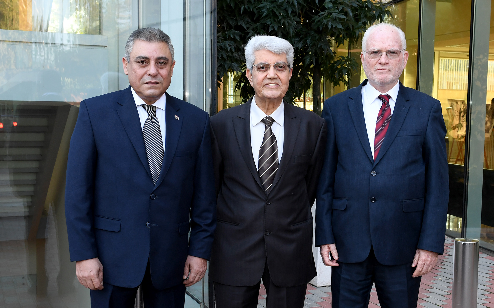 DSC_5489F On November 28, at IDC Herzliya Charge d'Affaires Leslie Tsou delivered a greeting at a conference on Israel-Egypt relations that honored the 40th anniversary of Egyptian President Anwar Sadat’s historic visit to Jerusalem. Sadat's visit paved the way for the Camp David Accords, the Israeli-Egyptian peace treaty that remains a durable framework for peace and stability in the region today. In her remarks, CDA Tsou noted that peacemaking requires trust and political courage. She affirmed that Middle East Peace remains a vital American strategic interest and resolving conflicts between Israel and its neighbors and between Israel and the Palestinians remains a priority for the United States. Photo credit: Matty Stern/U.S. Embassy Tel Aviv